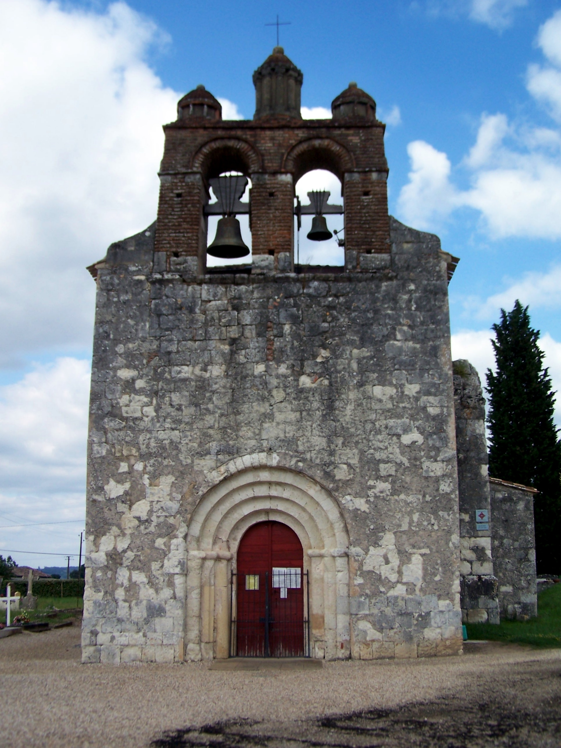 Saint-Vincent church of Pessac-sur-Dordogne (Gironde, France)